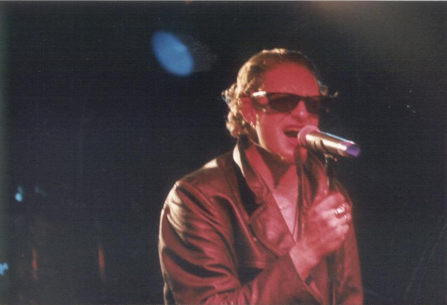 Layne Staley playing with Alice in Chains at The Channel in Boston, MA.